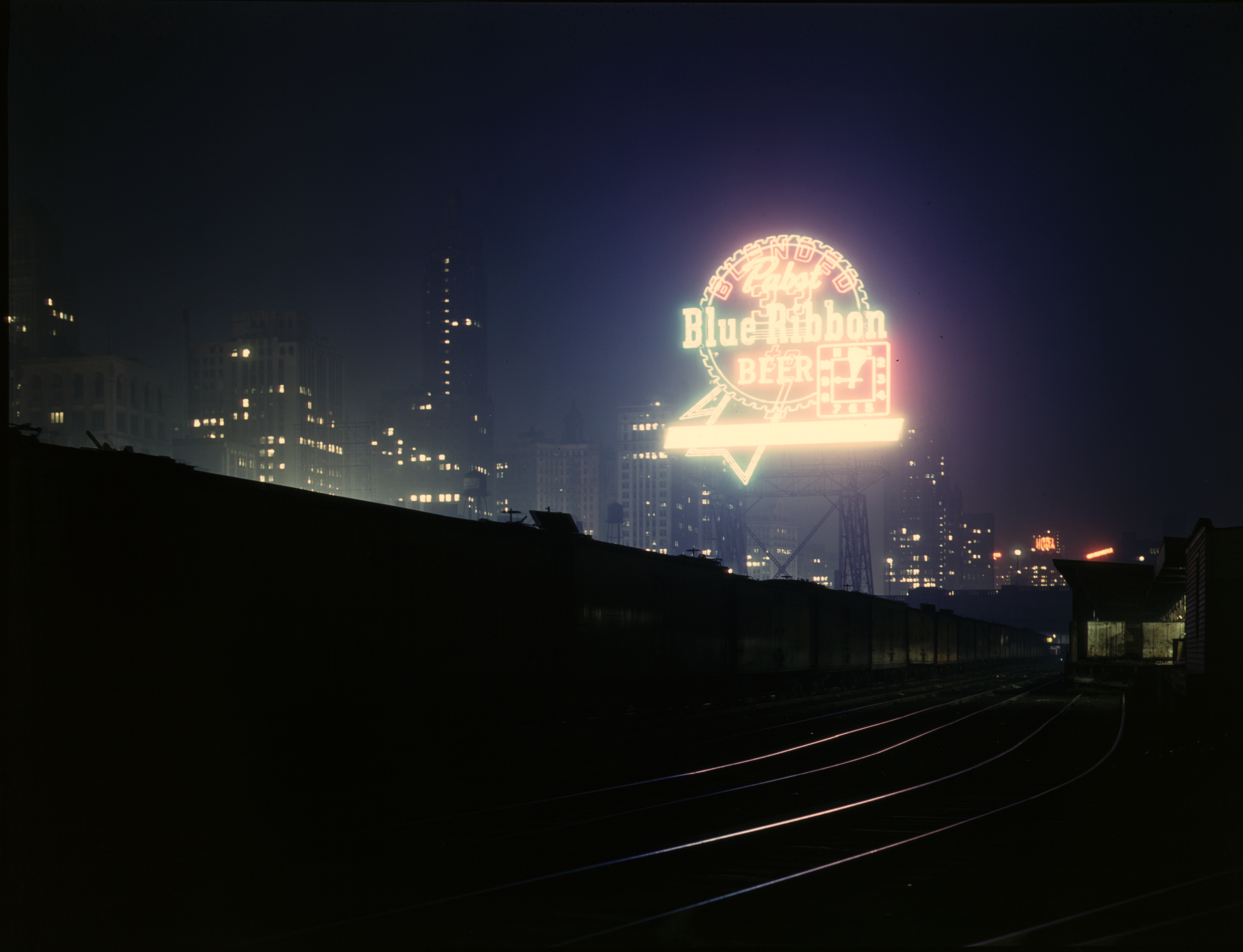 A sign advertising Pabst Blue Ribbon beer lights up the surrounding Illinois Central Railroad freight cars parked in Chicago's South Water Street freight terminal.